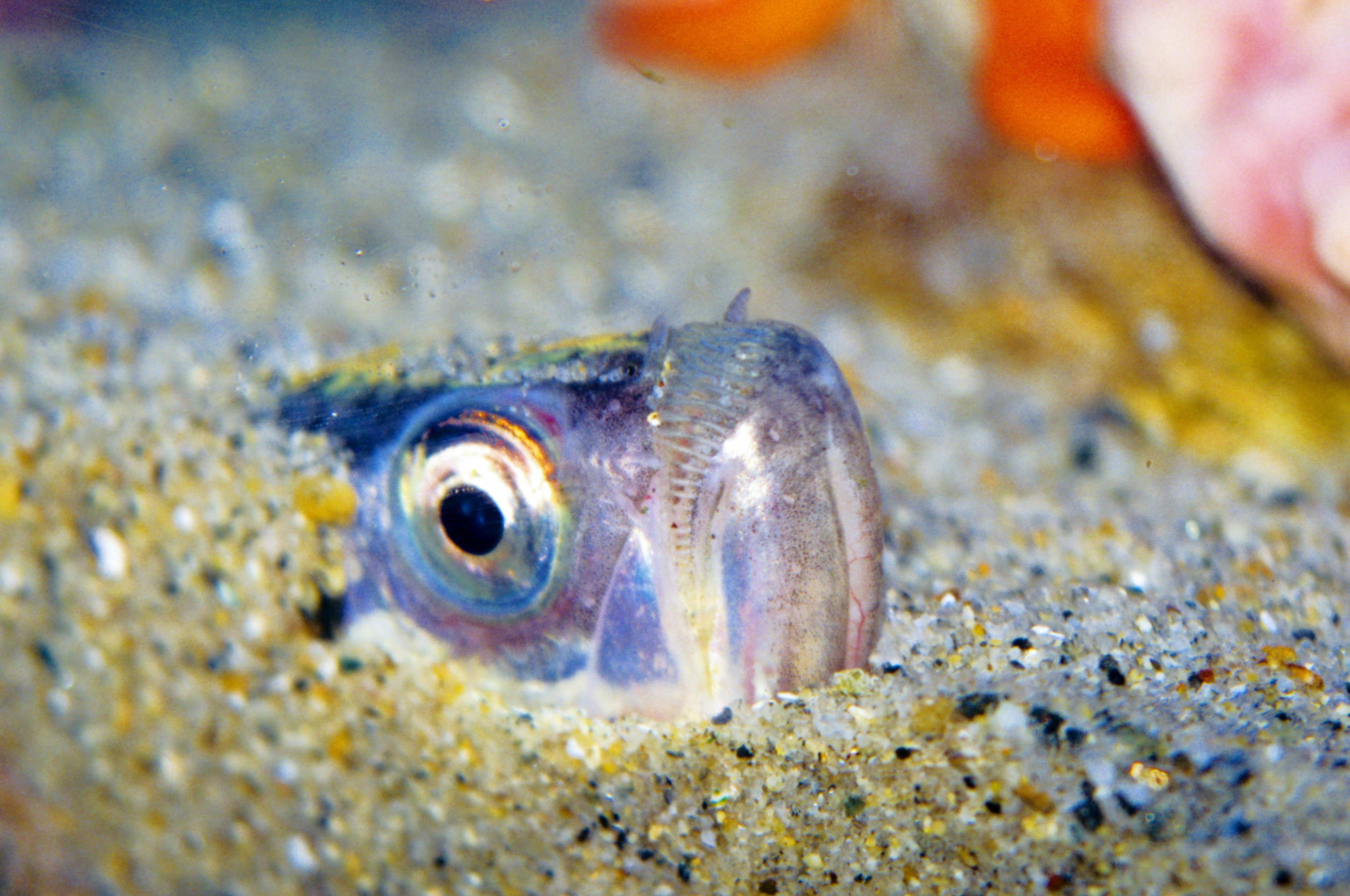 Buried sandfish (Trichodon trichodon) Image ID: fish4026, NOAA's Fisheries Collection Location: Alaska, Southeast